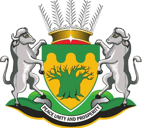 Ibheji lesifundazwe seLimpopo